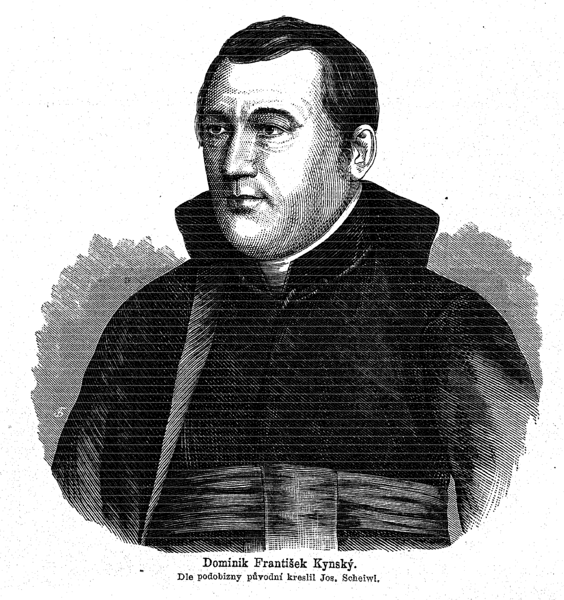 Portrait of Dominik Kynský, Czech poet and patriotic professor of theology.